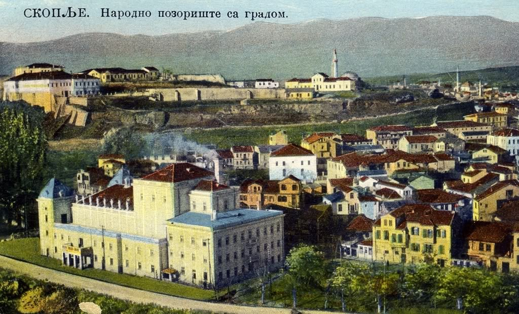 Old Skopje Theater